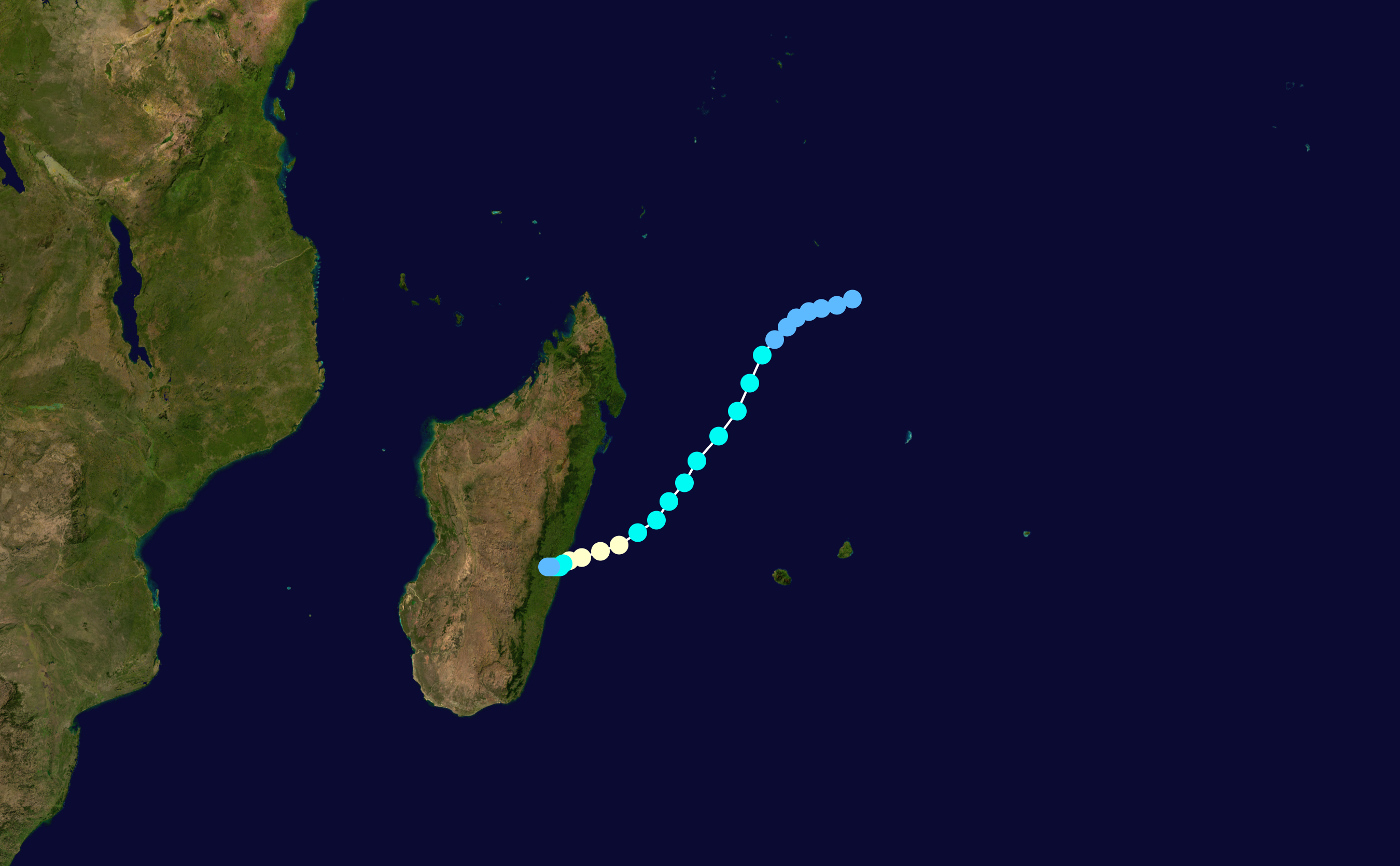 Track map of Severe Tropical Storm Clovis of the 2006-07 South West Indian Ocean cyclone season. The points show the location of the storm at 6-hour intervals. The colour represents the storm's maximum sustained wind speeds as classified in the Saffir–Simpson scale (see below), and the shape of the data points represent the nature of the storm, according to the legend below. Saffir–Simpson scale Tropical depression≤38 mph≤62 km/h Category 3111–129 mph178–208 km/h Tropical storm39–73 mph63–118 km/h Category 4130–156 mph209–251 km/h Category 174–95 mph119–153 km/h Category 5≥157 mph≥252 km/h Category 296–110 mph154–177 km/h Unknown Storm type Tropical cyclone Subtropical cyclone Extratropical cyclone / Remnant low / Tropical disturbance / Monsoon depression